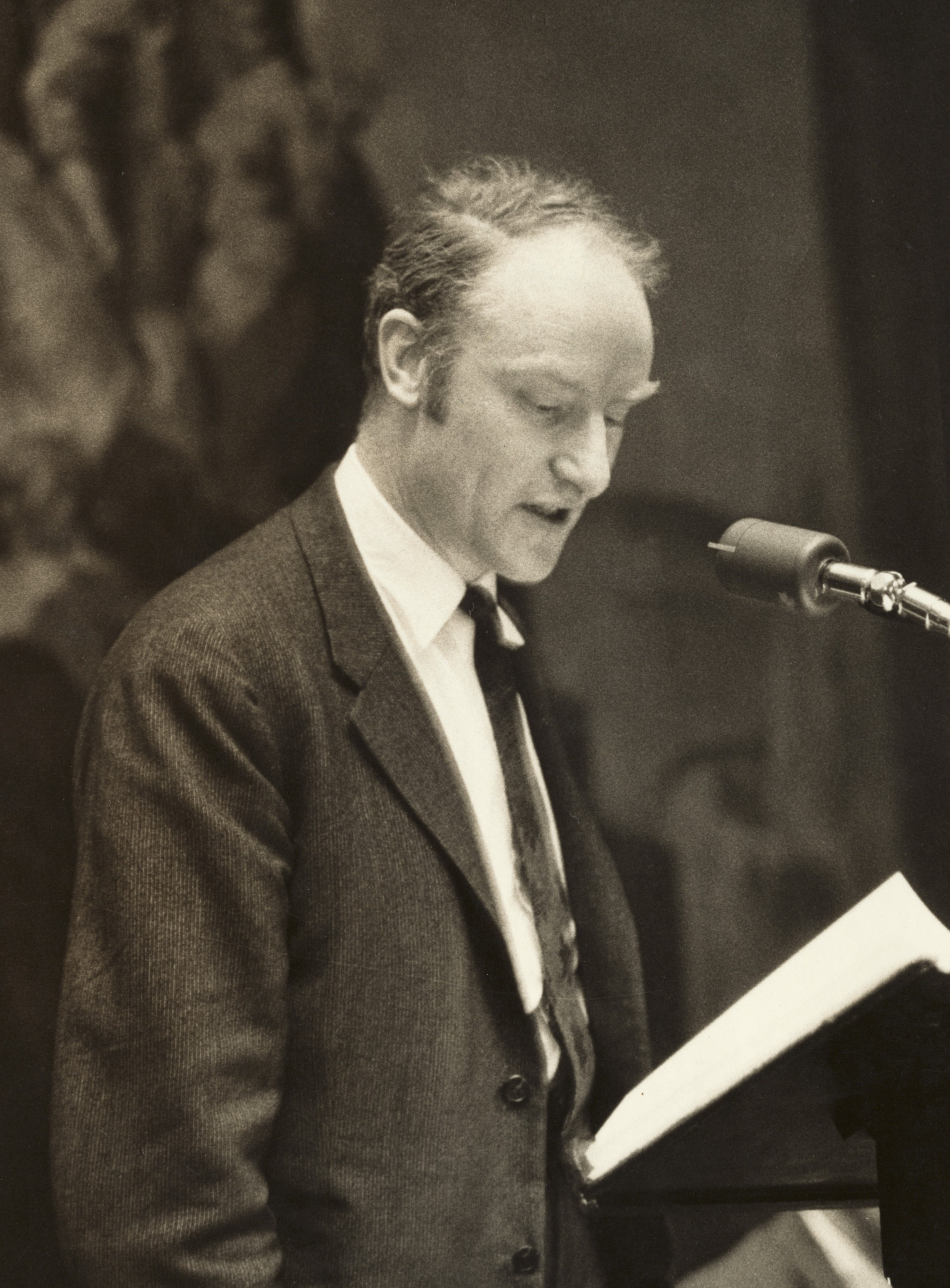 Francis Crick lecturing at Cambridge University